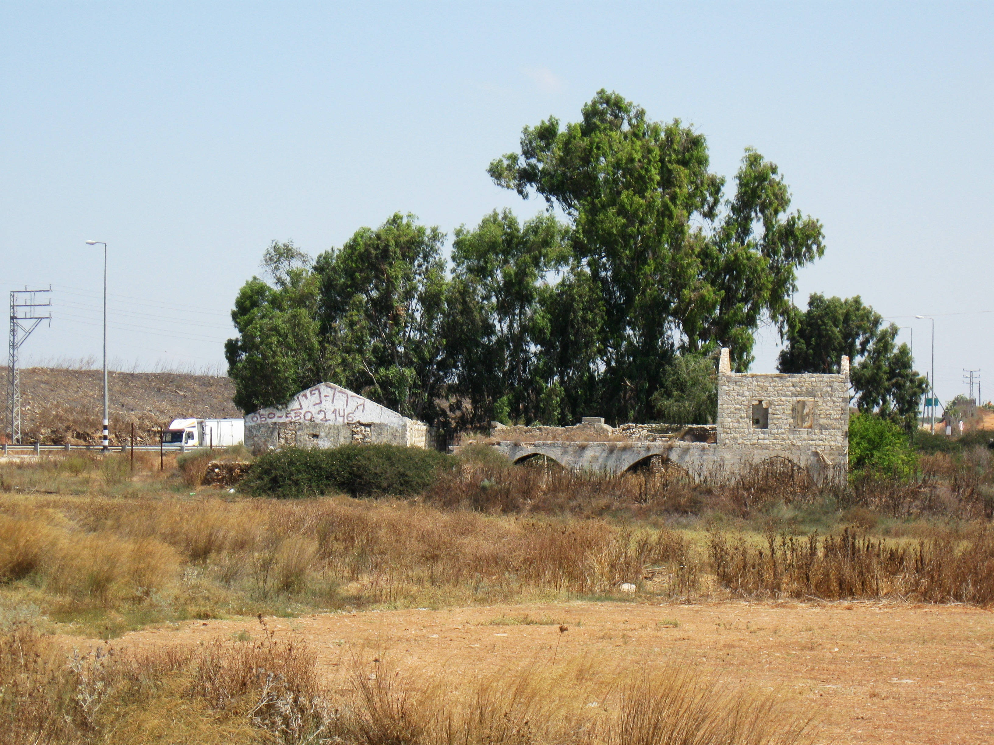 Byzantine_ranch a Kfar Saba